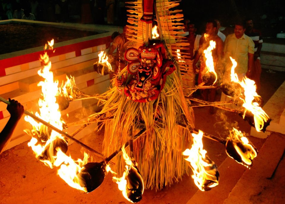 Agni Ghandakarna is a theyyam performed at Kerala.